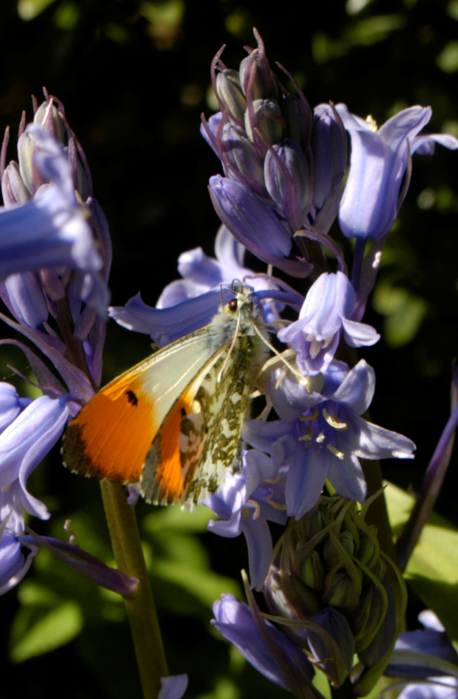 My photo (R. de Salis,Rodolph (talk) 18:47, 15 April 2014 (UTC)) of an anthocharis cardamines or Orange tip, on a blue-bell, north-west Hampshire, April 15 2014.